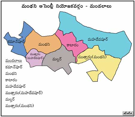 This file is the Map of Manthani Constituency